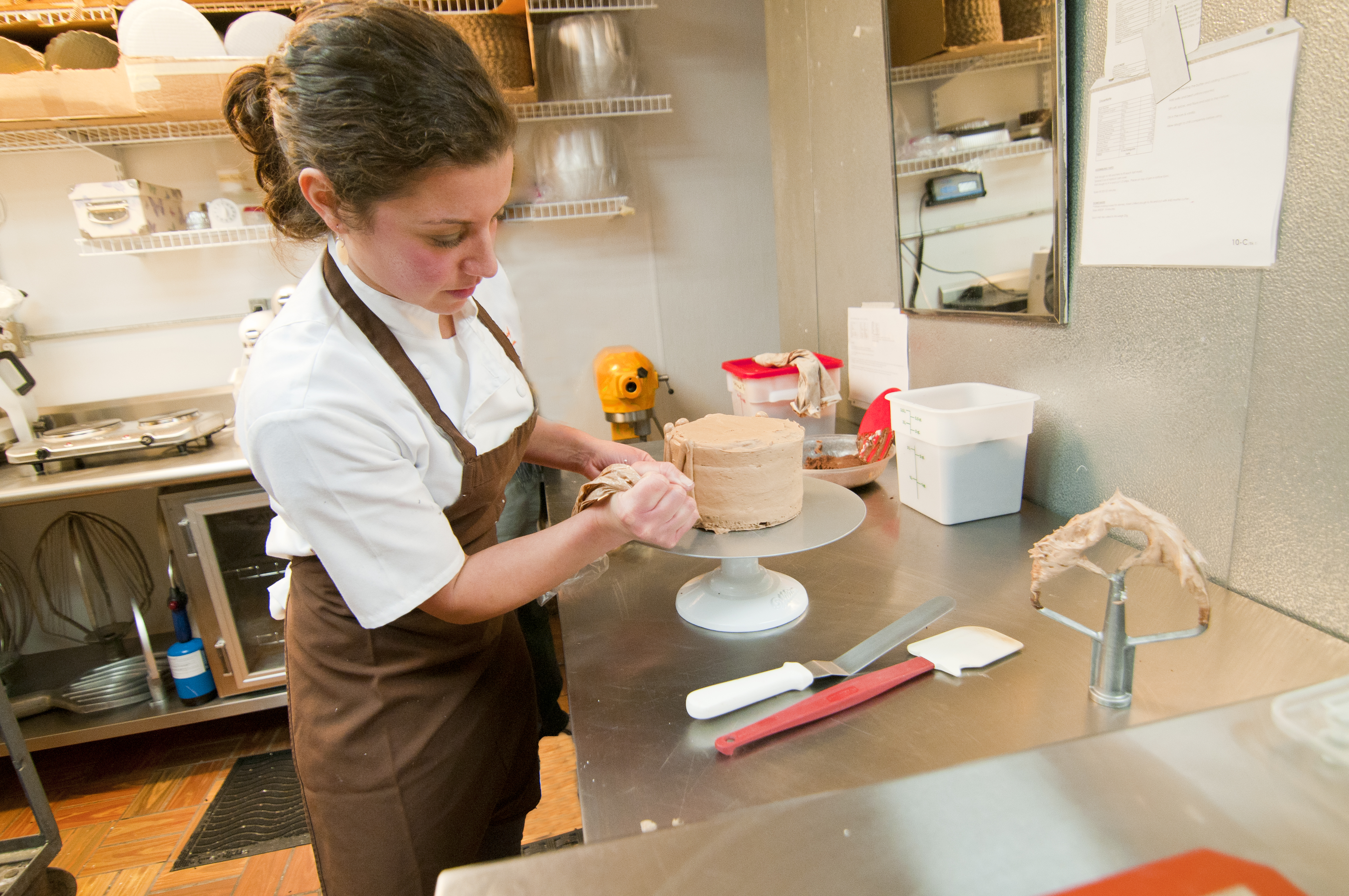 IPC Social Shoot. Parcha Sweets Bakery, 2101 Broad Ripple Ave, Indianapolis.